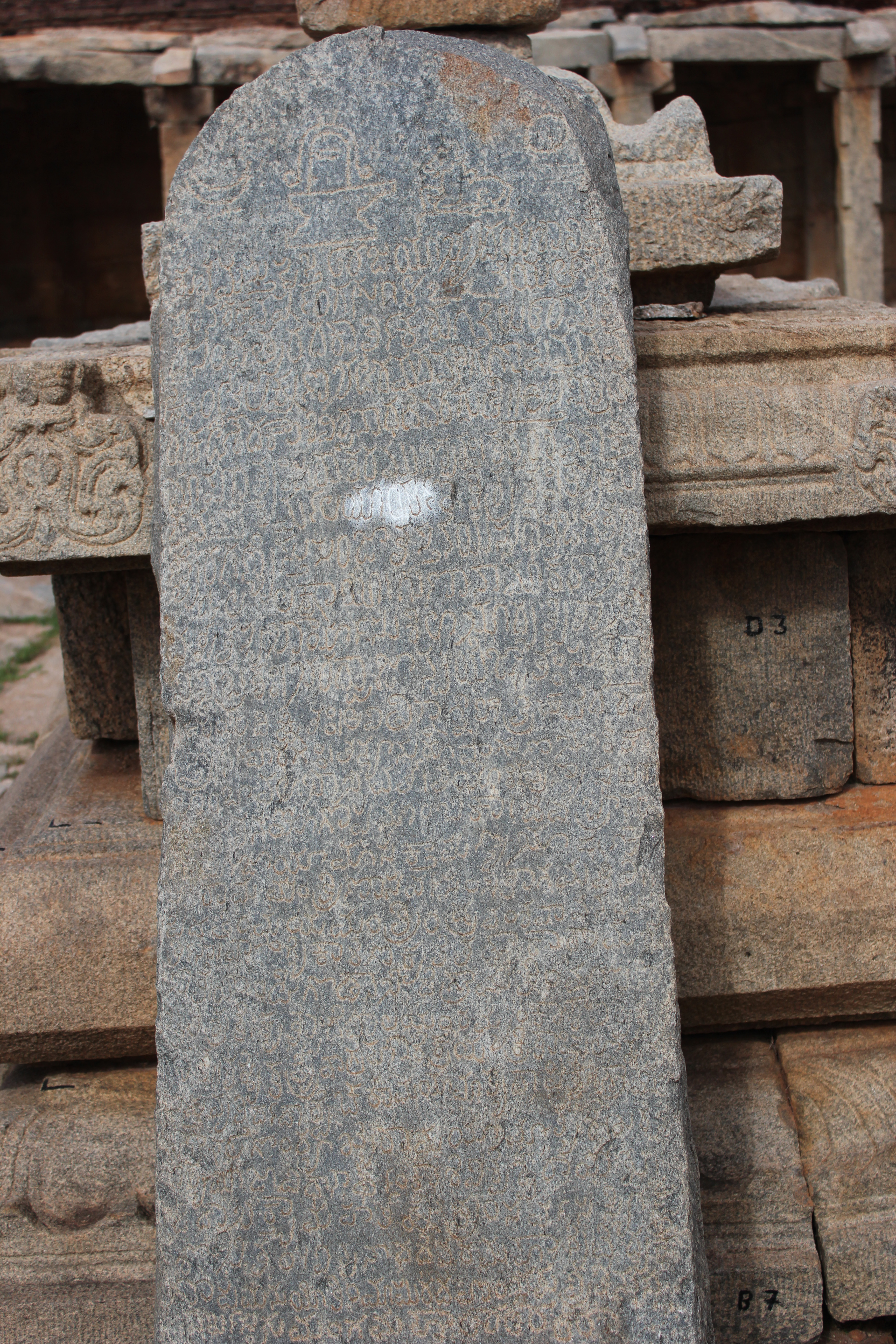 This photograph of a Kannada inscription dated 1539 A.D. was taken by me at the Shiva temple in Timmalapura, Bellary district, Karnataka state, India. The temple was constructed during the rule of King Achyuta Raya (1529-1542 AD) of the Vijayanagara Empire